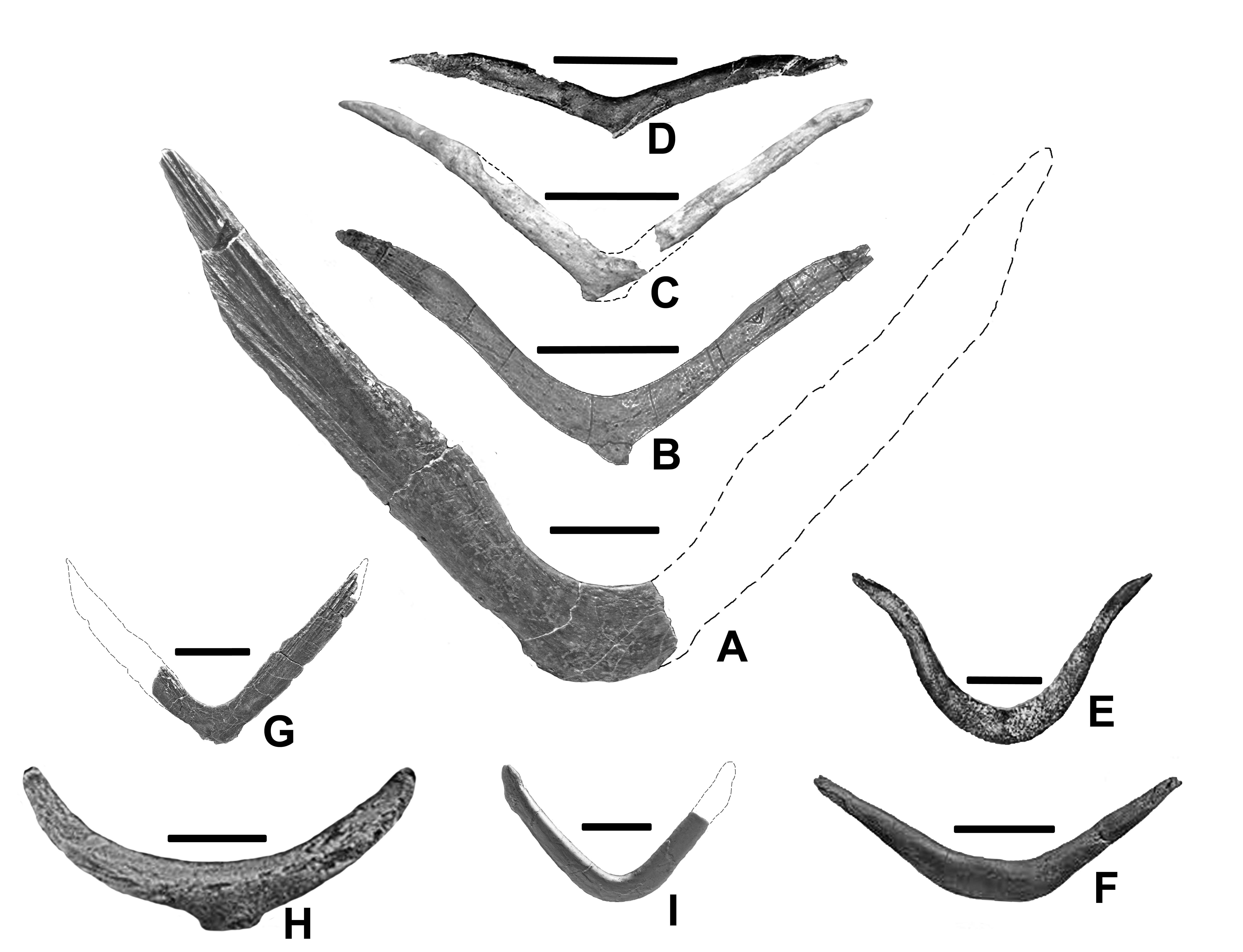 Furculae (wishbones) of Dakotaraptor (A, G) compared with other theropod dinosaurs. Suchomimus (B), Velociraptor (c), Allosaurus (D), Gorgosaurus (E), Tyrannosaurus (F), Conchoraptor (H), and an unidentified Hell Creek raptor (Possibly Acheroraptor; I)